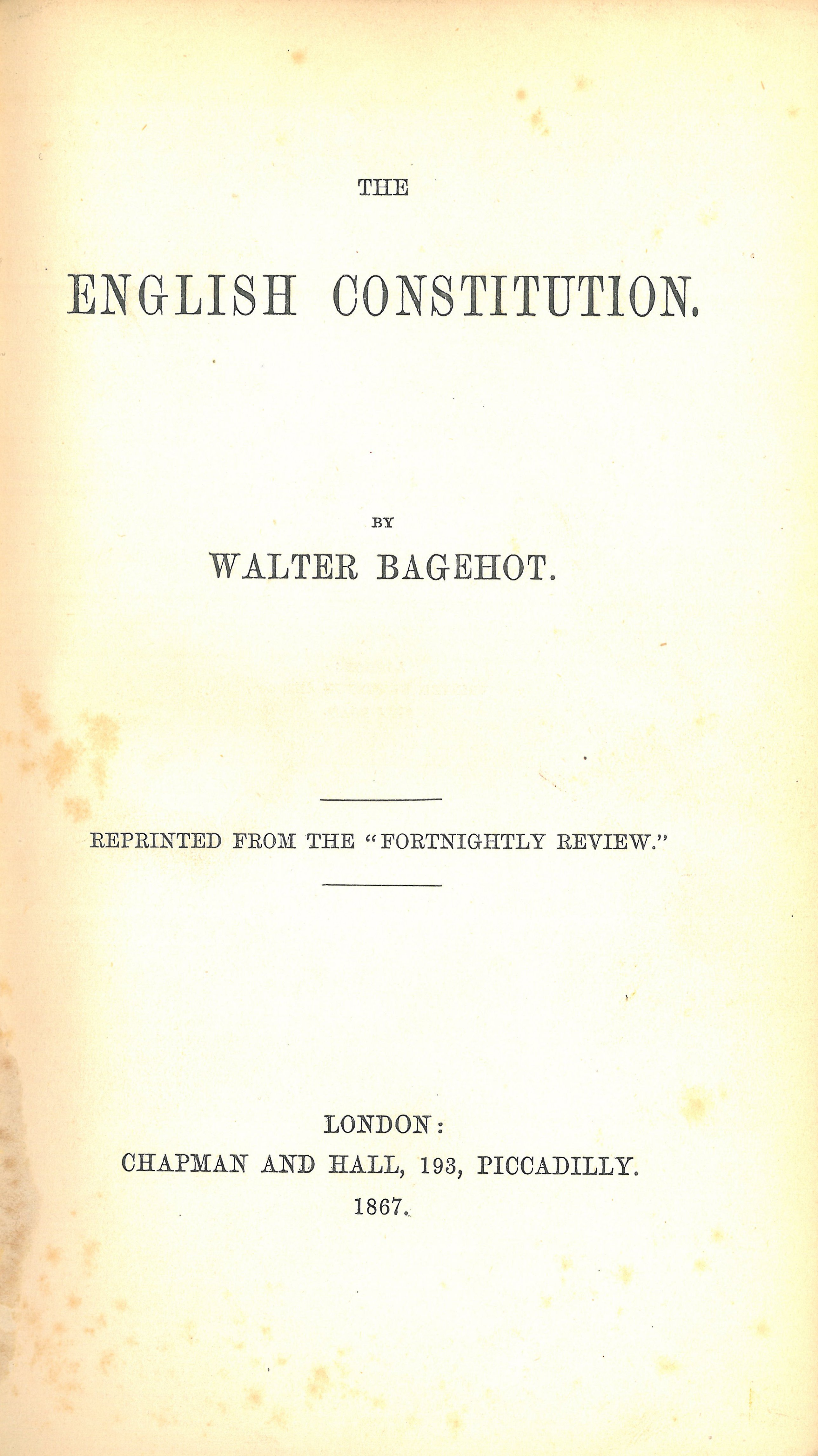 Title page of Walter Bagehot (1867) The English Constitution (1st ed.), London: Chapman and Hill OCLC: 60724184.